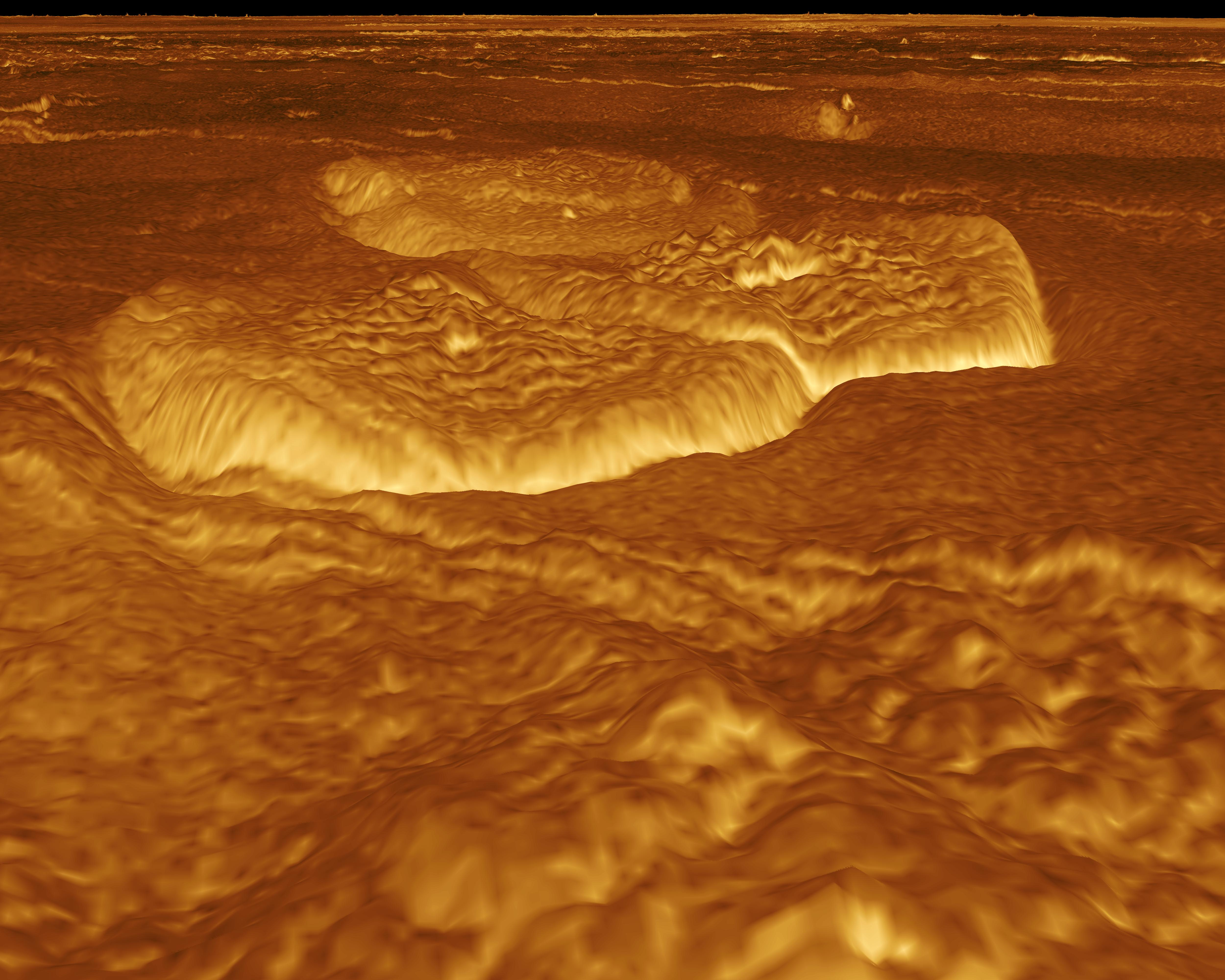 A portion of the eastern edge of Alpha Regio is displayed in this three-dimensional perspective view of the surface of Venus. The viewpoint is located at approximately 30 degrees south latitude, 11.8 degrees east longitude at an elevation of 2.4 kilometers (3.8 miles). The view is to the northeast at the center of an area containing seven circular dome-like hills. The average diameter of the hills is 25 kilometers (15 miles) with maximum heights of 750 meters (2,475 feet). Three of the hills are visible in the center of the image. Fractures on the surrounding plains are both older and younger than the domes. The hills may be the result of viscous or thick eruptions of lava coming from a vent on the relatively level ground, allowing the lava to flow in an even lateral pattern. The concentric and radial fracture patterns on their surfaces suggests that a chilled outer layer formed, then further intrusion in the interior stretched the surface. An alternative interpretation is that domes are the result of shallow intrusions of molten lava, causing the surface to rise. If they are intrusive, then magma withdrawal near the end of the eruptions produced the fractures. The bright margins possibly indicate the presence of rock debris or talus at the slopes of the domes. Resolution of the Magellan data is about 120 meters (400 feet). Magellan's synthetic aperture radar is combined with radar altimetry to develop a three-dimensional map of the surface. A perspective view is then generated from the map. Simulated color and a process called radar-clinometry are used to enhance small-scale structures. The simulated hues are based on color images recorded by the Soviet Venera 13 and 14 spacecraft. The image was produced by the JPL Multimission Image Processing Laboratory by Eric De Jong, Jeff Hall, Myche McAuley, and Randy Kirk of the United States Geological Survey, and is a single frame from the movie released at the May 29, 1991 Magellan news conference.